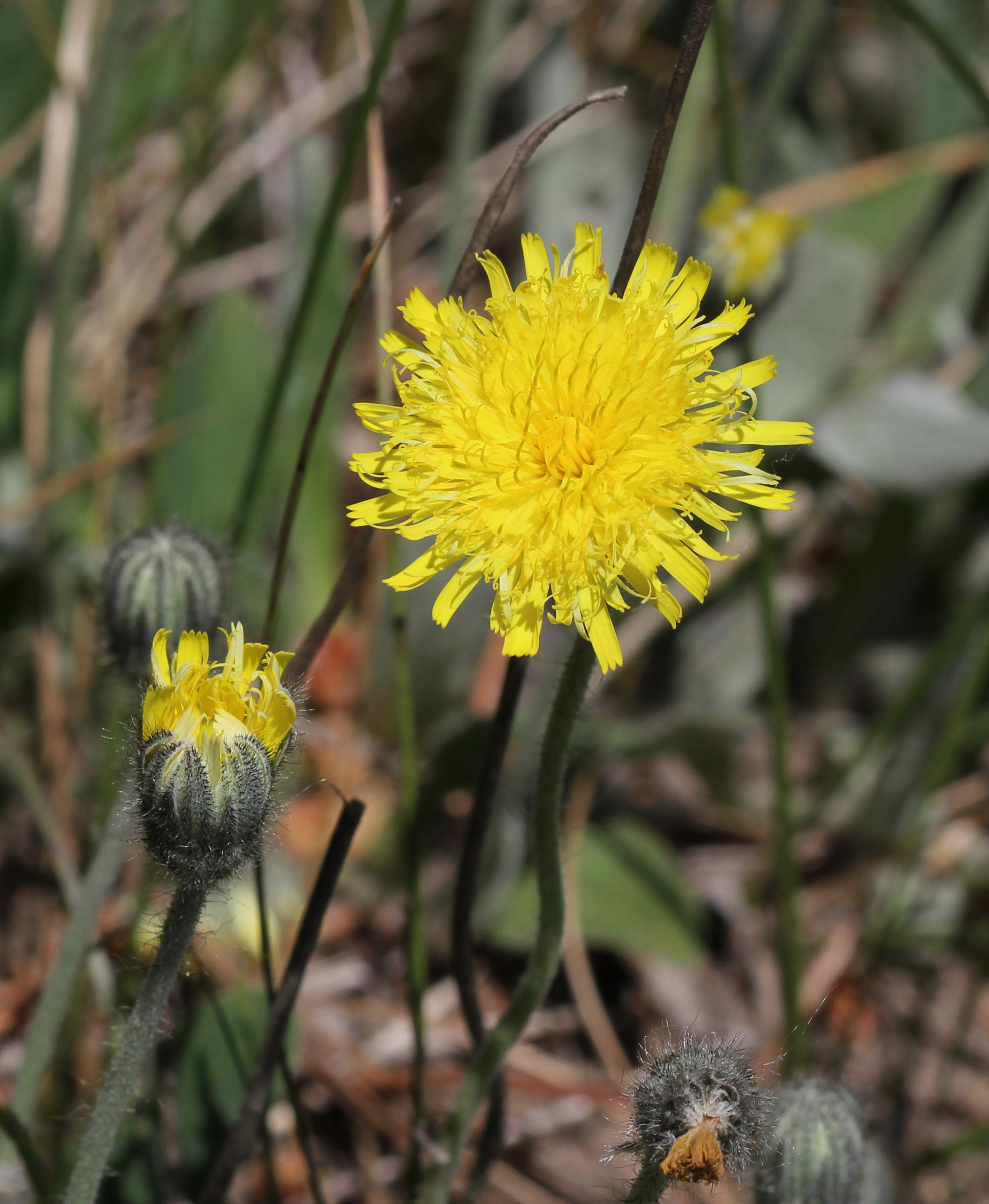 Mouse-ear hawkweed (Hieracium pilosella). Ukraine.